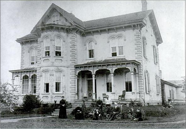 1910 photo of the Benjamin Griffey House on Pennsylvania Route 44 in Gregg Township, Union County, Pennsylvania, USA. The house was built around 1886, listed on the National Register of Historic Places in 1978, and badly damaged in a 1980 fire. As of 2012 it is no longer standing at its original location.